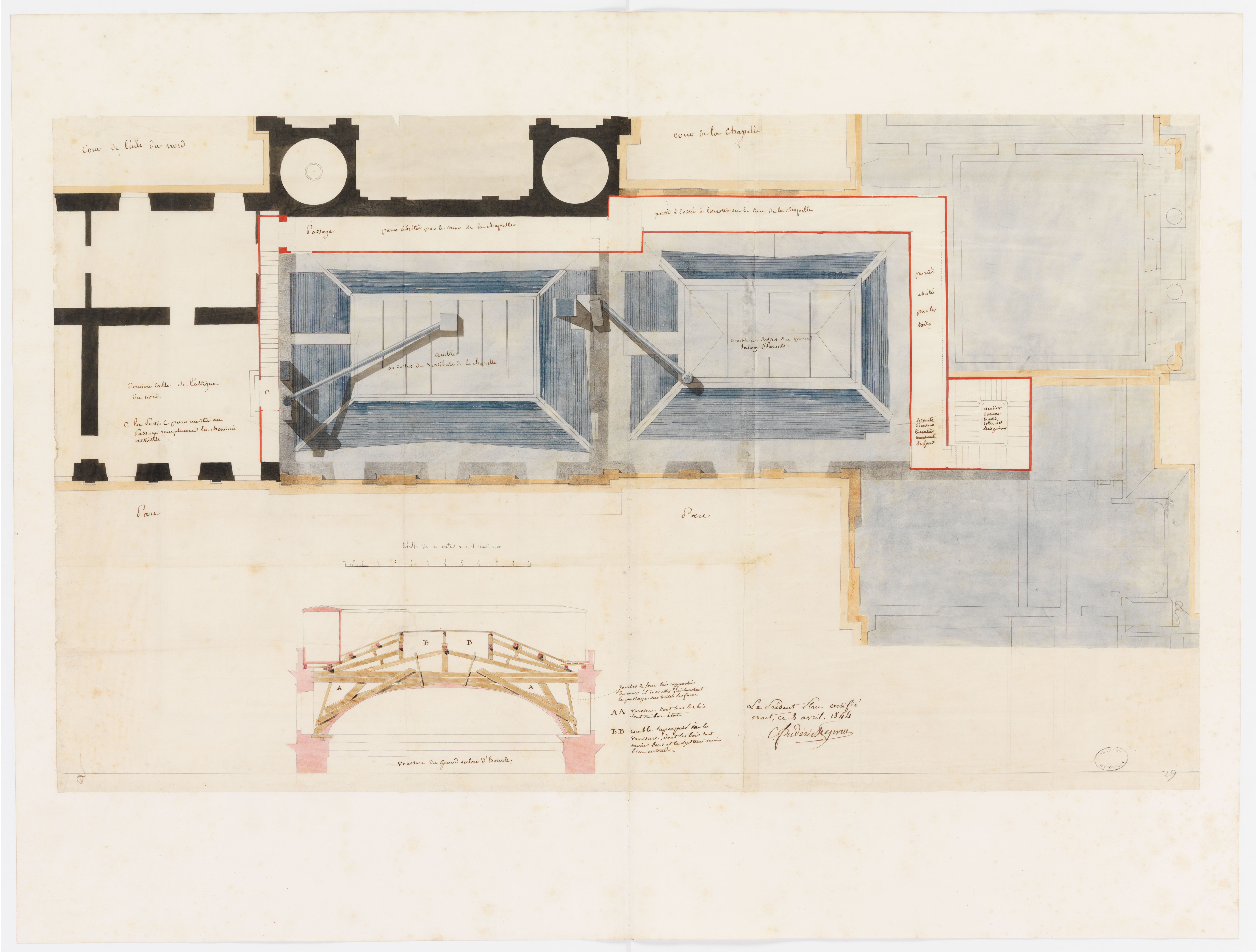 Palace of Versailles: plan of the 1st floor showing the roof above the vestibule of the chapel and the Hercules Salon; section of the bent above the Hercules Salon by architect Frédéric Nepveu (1844)